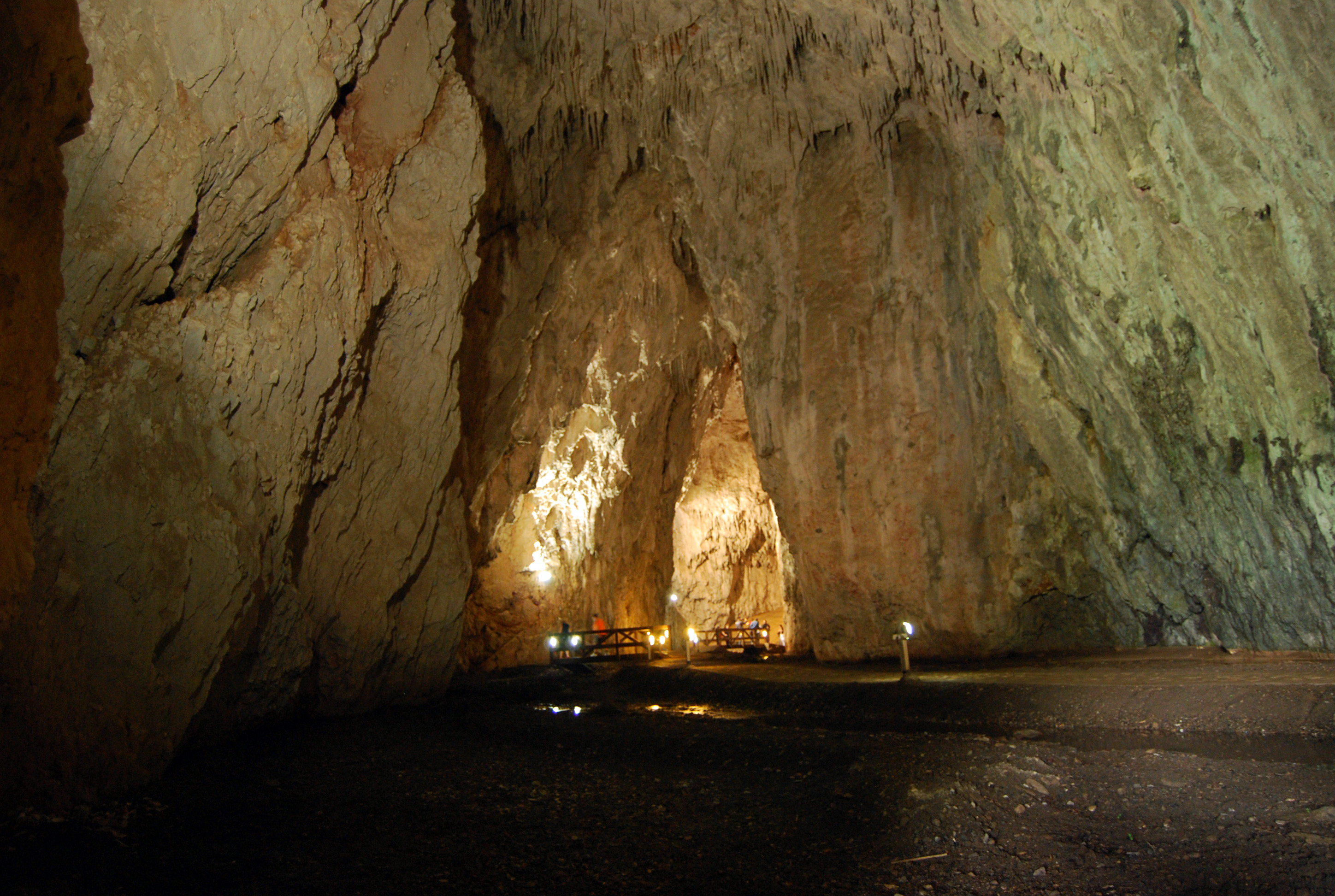 Stopića cave on Zlatibor,Serbia.